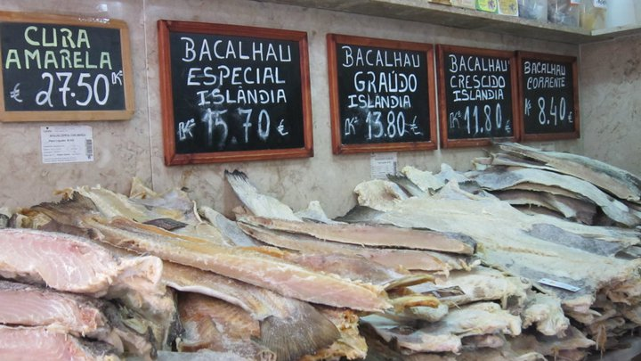 Bacalhau shop in Lisbon, Portugal